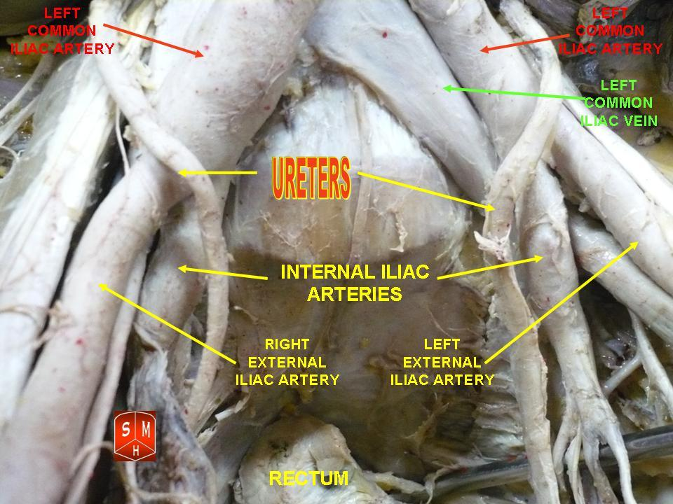 Anatomical preparations